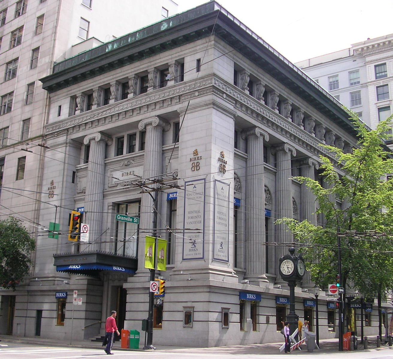 At Granville and West Hastings Street, Vancouver, Canada. Currently occupied by Birks Jewellers. Formerly the Canadian Imperial Bank of Commerce. A classic 'temple bank' style built in 1908.